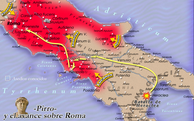 Advance of towards Rome, BC 280